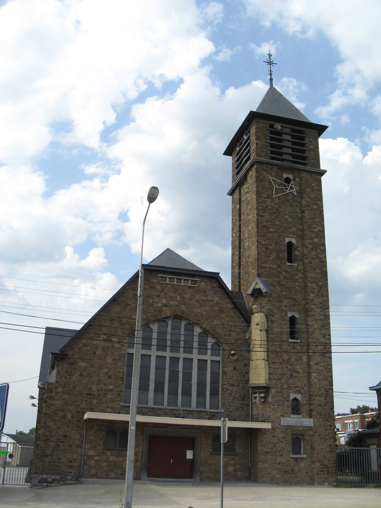 Church of Saint John Mary Vianney in Thiers, Chênée, Liège, Liège, Belgium